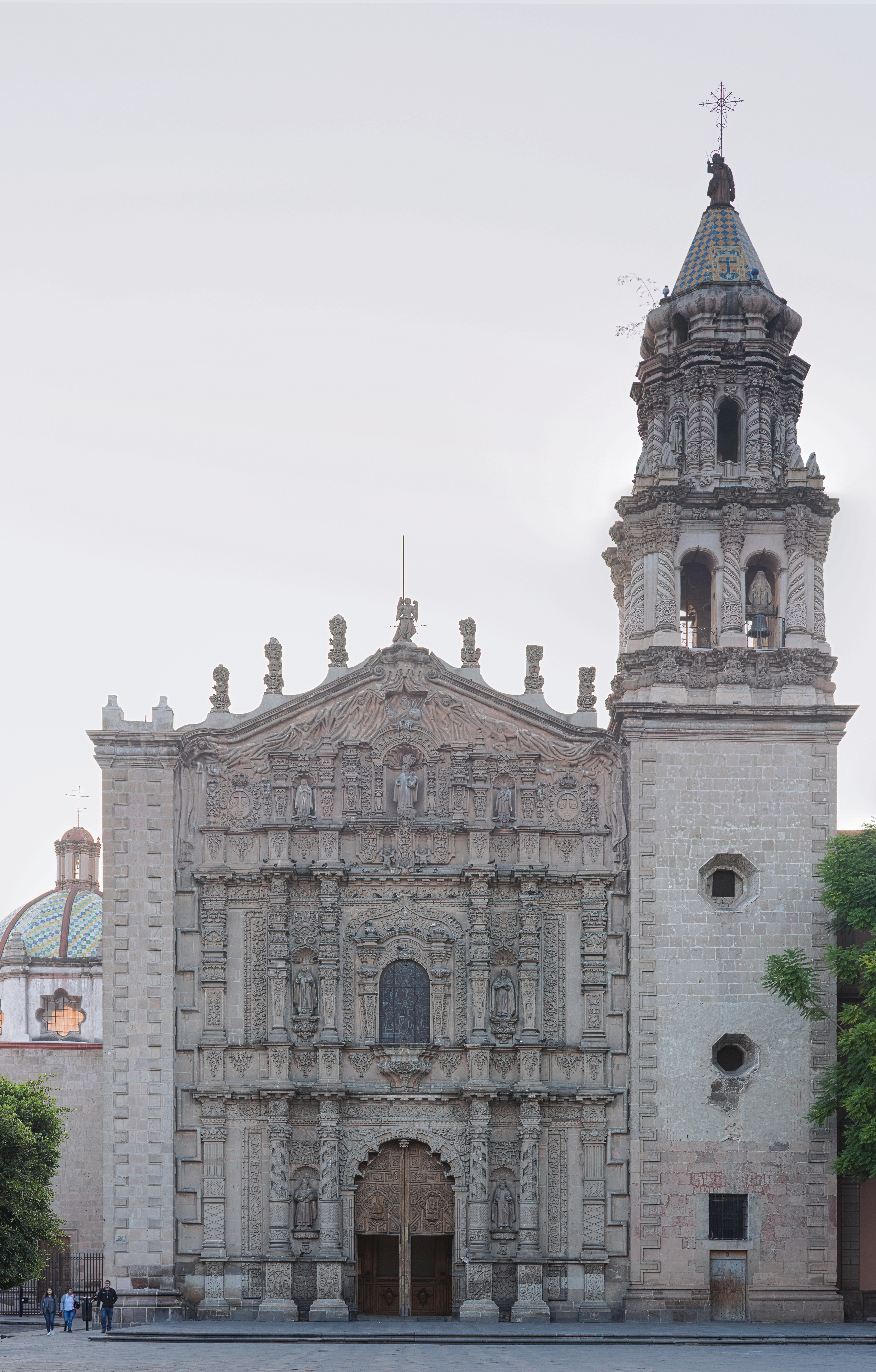 Temple Nuestra señora del Carmen, in San Luis Potosí City, Mexico, image created by combining 3 pictures